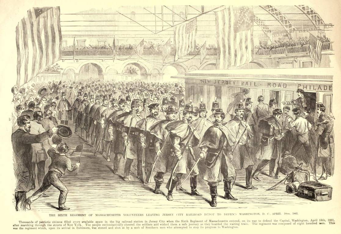 A lithograph depicting the 6th Regiment Massachusetts Militia boarding cars at the station in Jersey City en route to Washington.